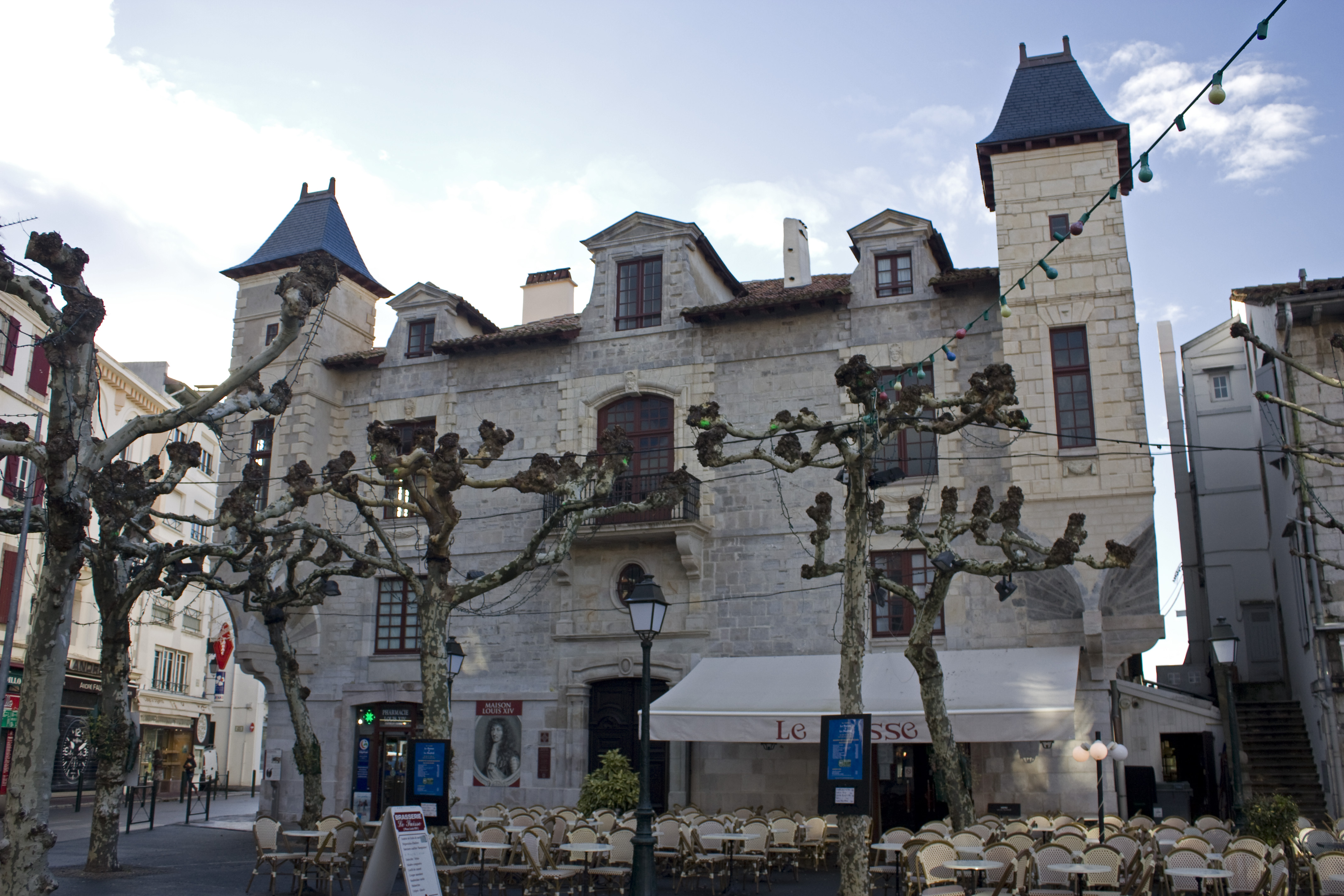 Main facade of the Maison Louis XIV.